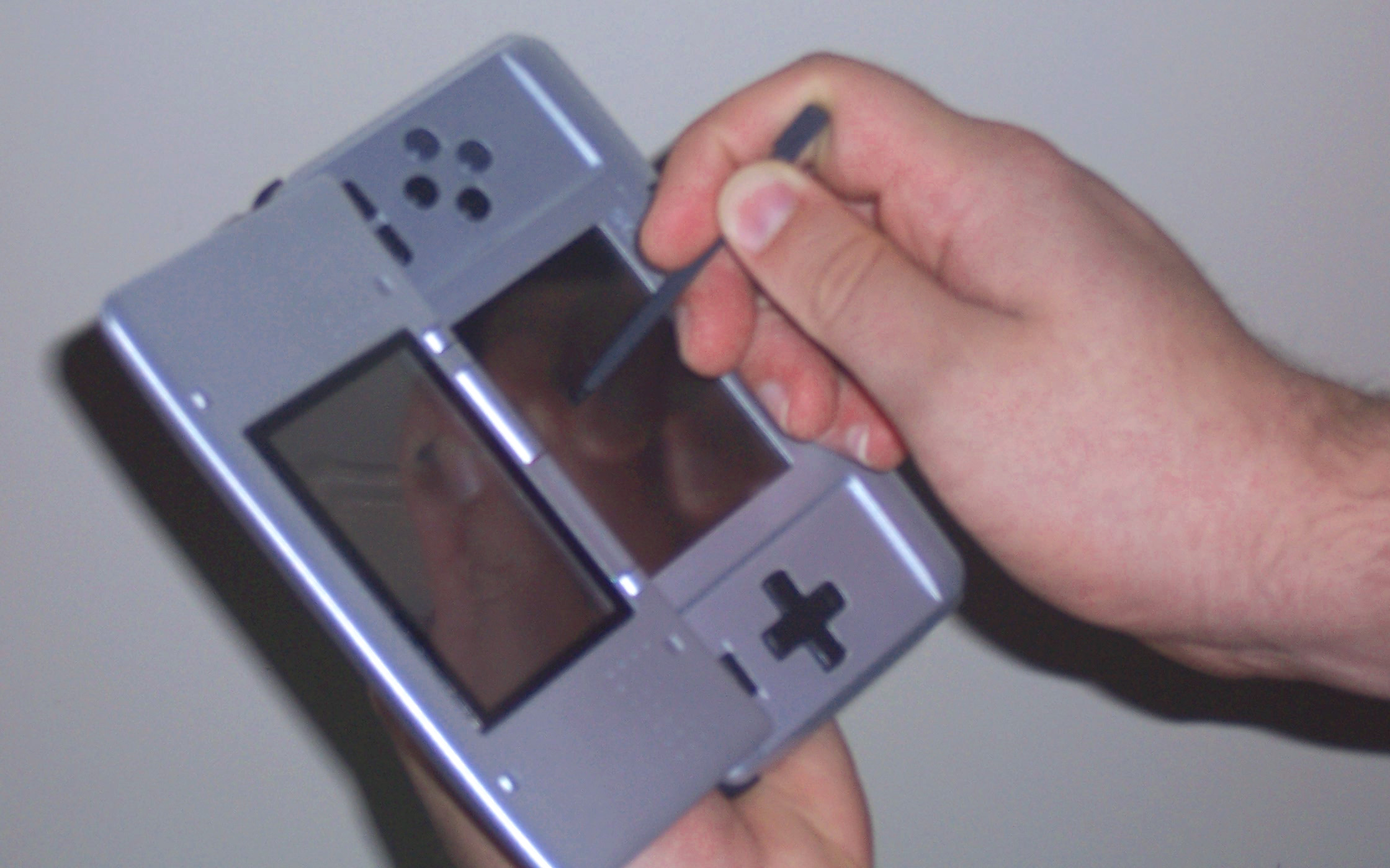 This image is a photograph of myself holding a Nintendo DS sideways, a feature used in some games for the system. The system is held sideways with one hand, while the other holds the stylus.